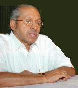 Ottaplakkal Nambiyadikkal Velu Kurup